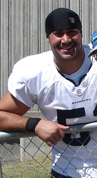 Seahawks training camp 2005